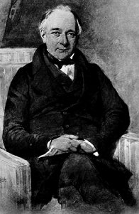 by virtue of age